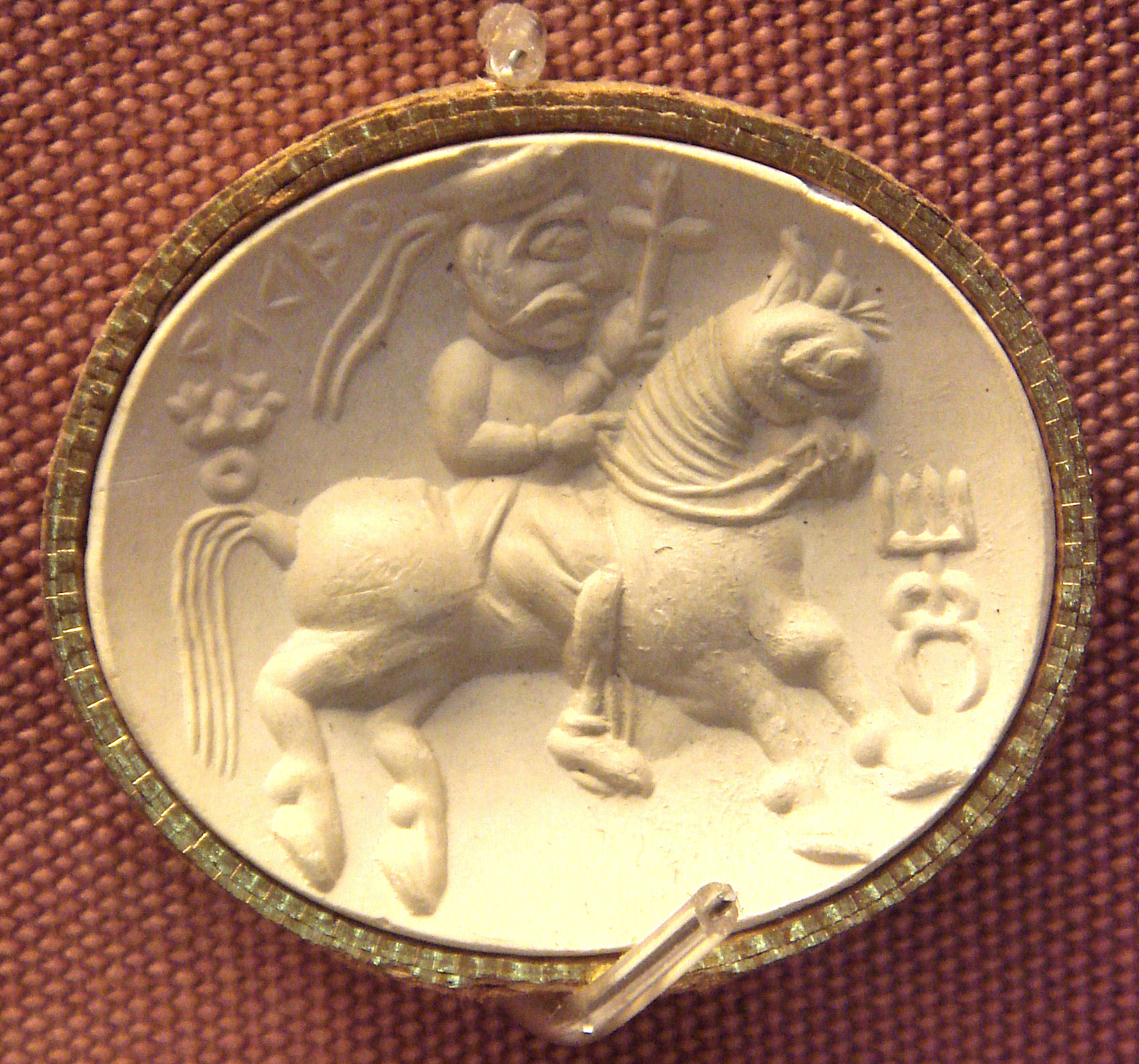 Kushan divinity Adsho (carnelian seal). British Museum. Personal photograph 2005.